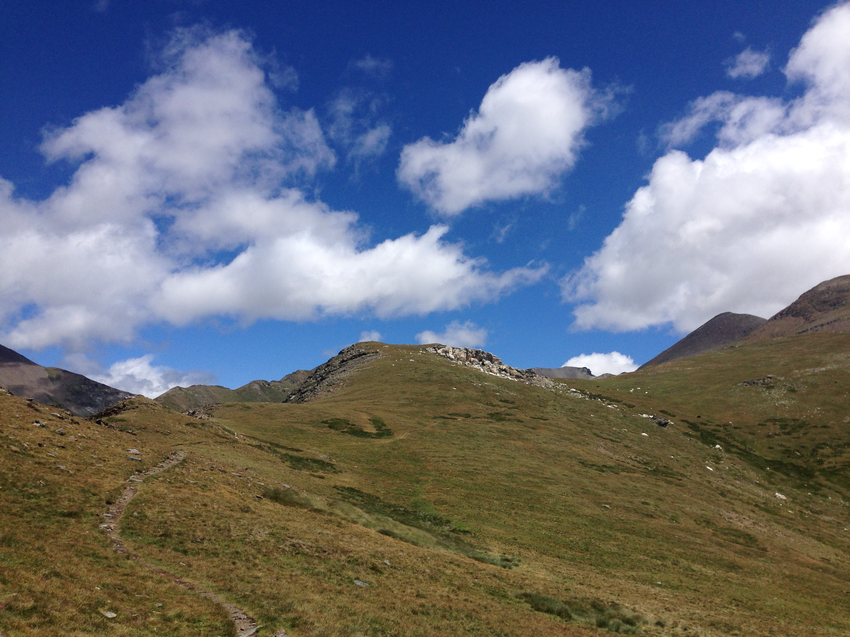 The Pic de la Pala (Pyrenees, 2,475 m), seen from south-west.